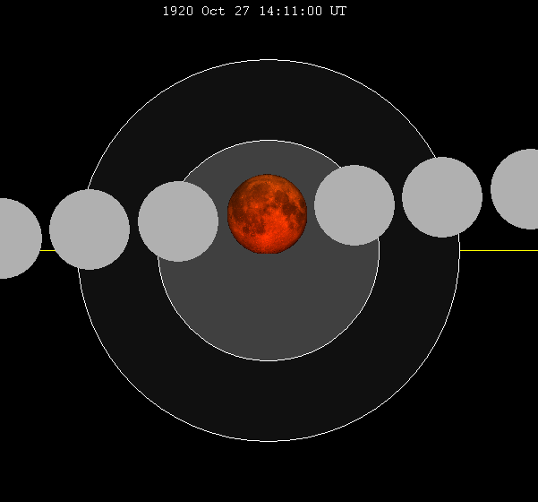 October 1920 lunar eclipse chart of moon's lunar eclipse path through the earth's shadow. thumb